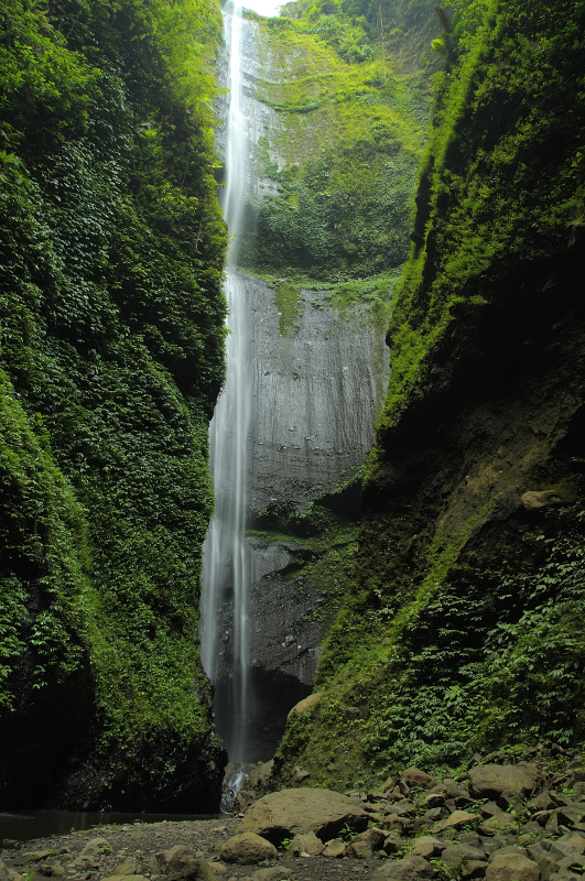 Madakaripura Waterfall, Bromo Tengger Semeru National Park, Lumbang, Probolinggo, Jawa Timur